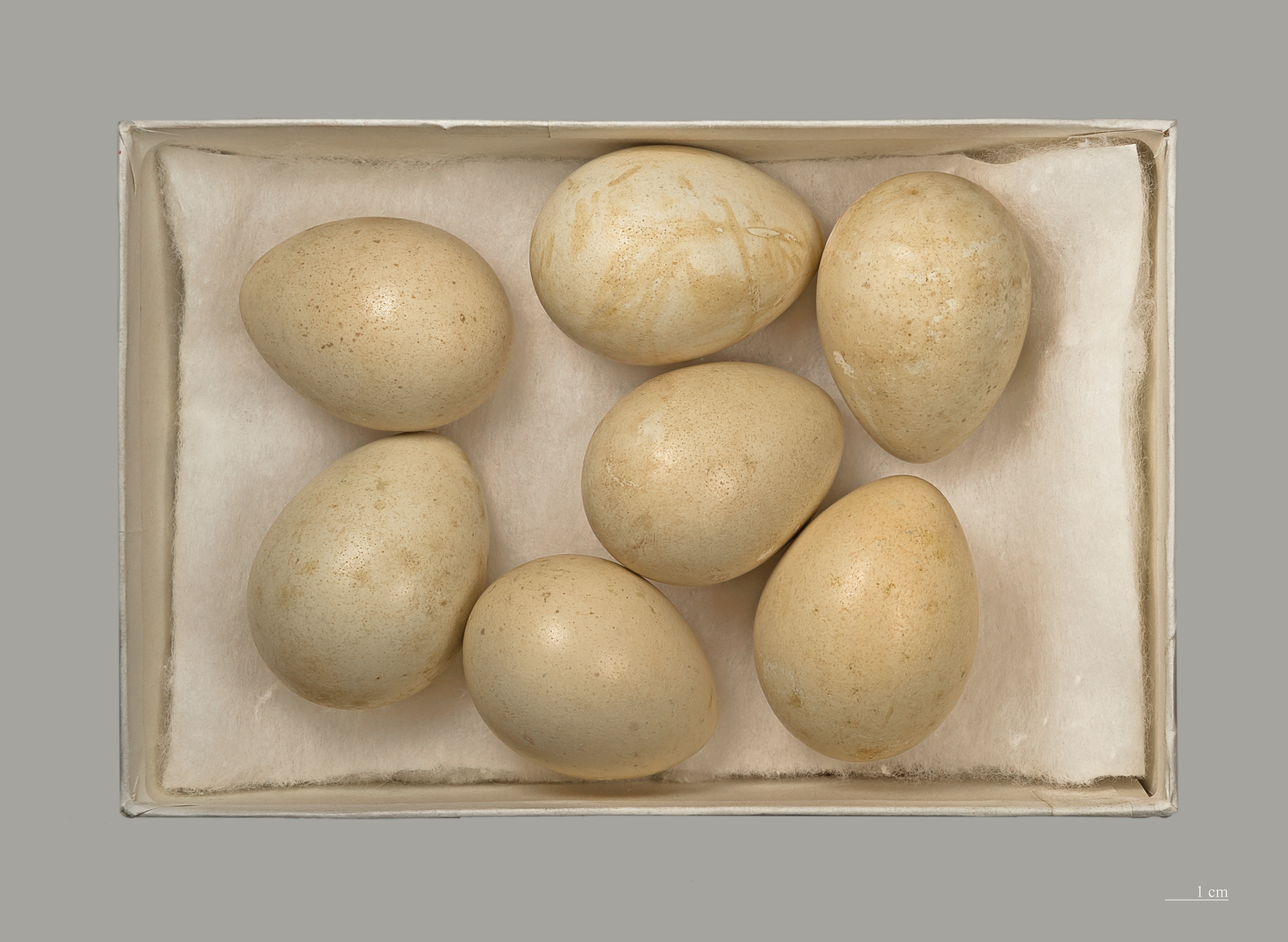 Eggs of Rock Partridge. Collection of Wolfgang Makatsch / Jacques Perrin de Brichambaut. Locality : Mount Parnassus, Greece .